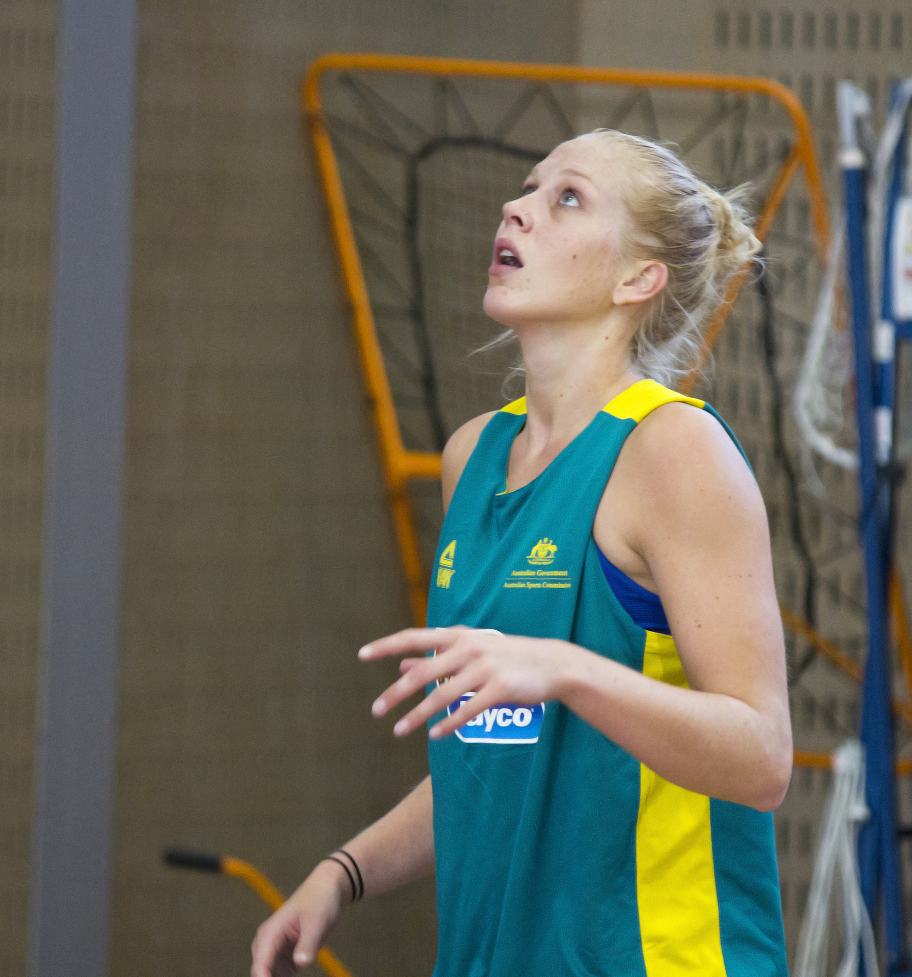 Abby Bishop at day two of the Opals camp.